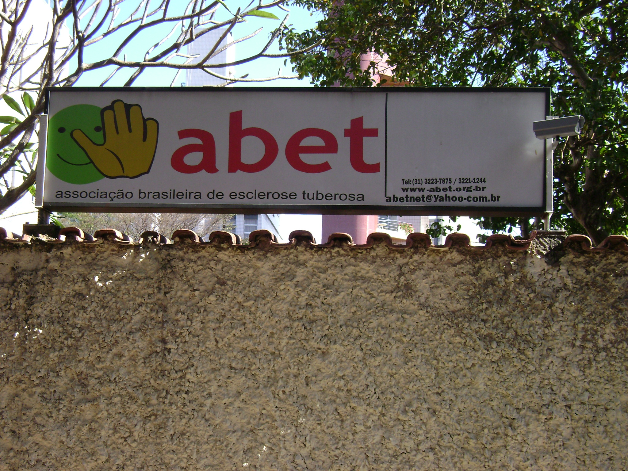 Placa indicativa da ABET (Associação Brasileira de Esclerose Tuberosa) em Belo Horizonte.